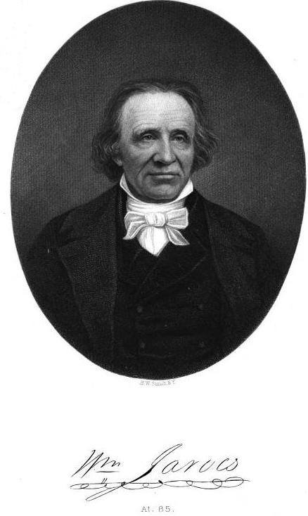 Portrait of Consul William Jarvis of Weathersfield, Vermont, from the biography of Jarvis by his daughter Mary Pepperell Sparhawk Jarvis Cutt